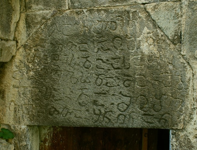 The Tiri Monastery is a 13th-centuryl Georgian church located in the historical province of Shida Kartli, now included in South Ossetia. The inscription in Georgian mentions the noblemen Siaush, Rati, Asat, Khepa, and Machebl Tavkhelisdze.